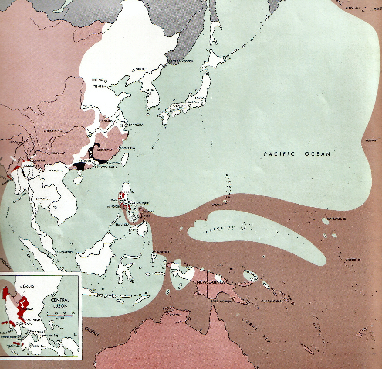 Map of the front against Japan as of 1 Feb 1945: This map is taken from the source "Atlas of the World Battle Fronts in Semimonthly Phases to August 15th 1945: Supplement to The Biennial report of The Chief of Staff of the United States Army July 1, 1943 to June 30 1945 To the Secretary of War". (See Cover, Forward and Map details)